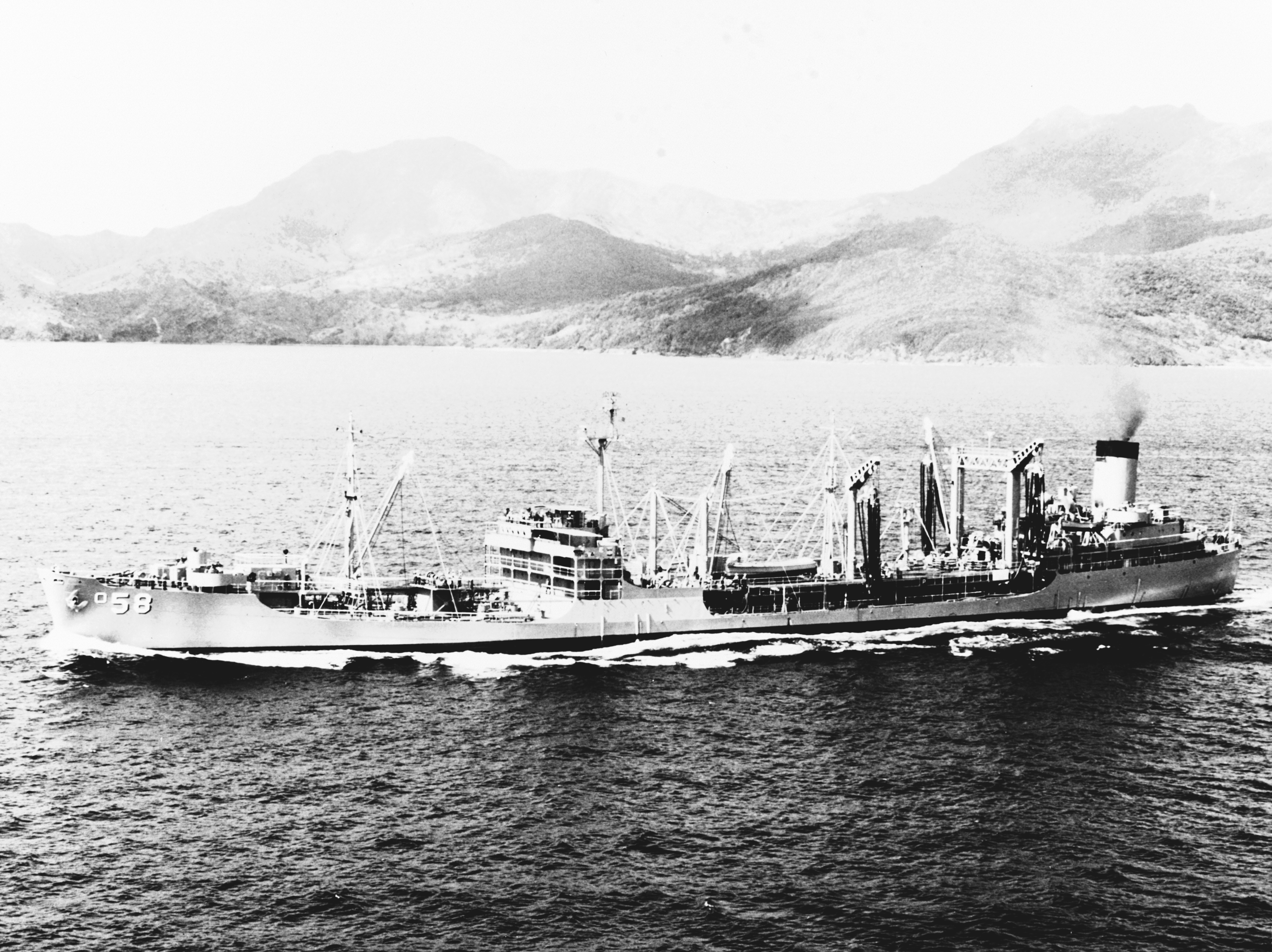 The U.S. Navy fleet oiler USS Manatee (AO-58) underway in Subic Bay, Republic of the Philippines, 28 October 1969.